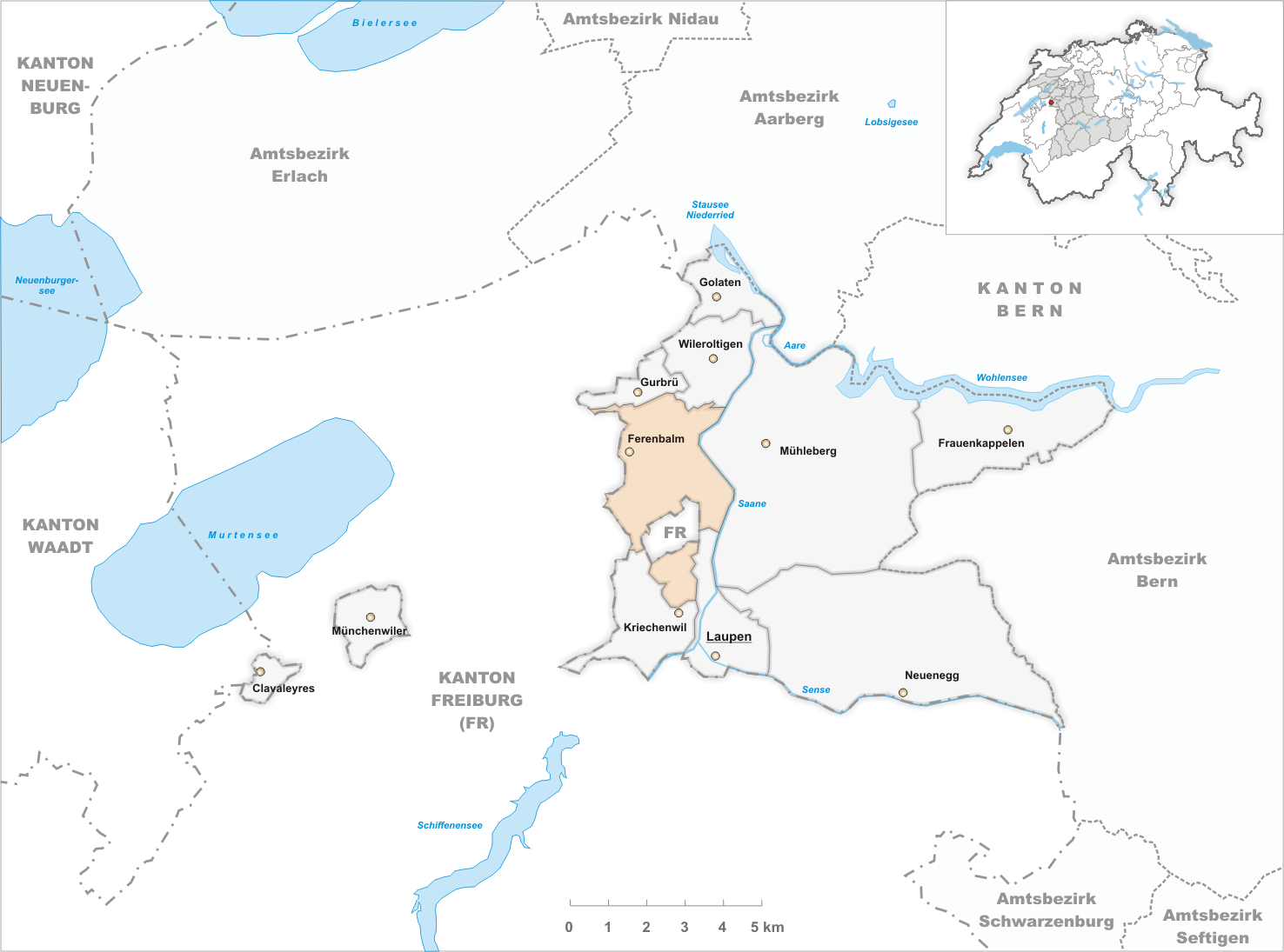 Municipality Ferenbalm